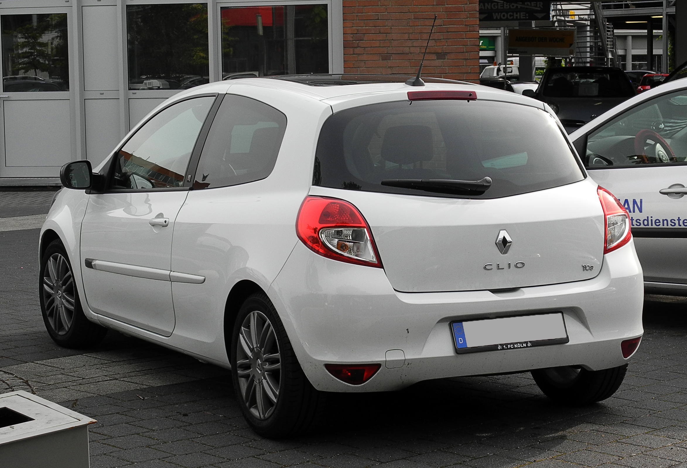 Renault Clio 20th (III, Facelift)